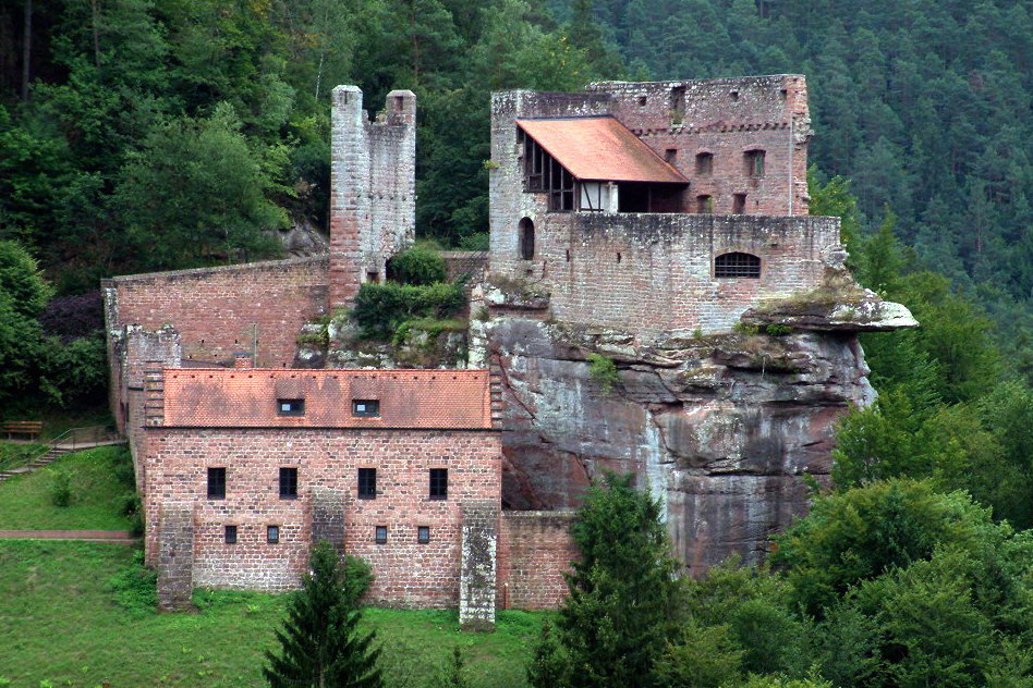 Castle Burg Spangenberg, Pfalz (Germany)